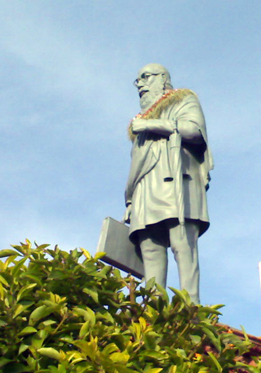 Statue of Nepal Bhasa poet Chittadhar Hridaya erected at Kalimati crossroads in Kathmandu in 2008.